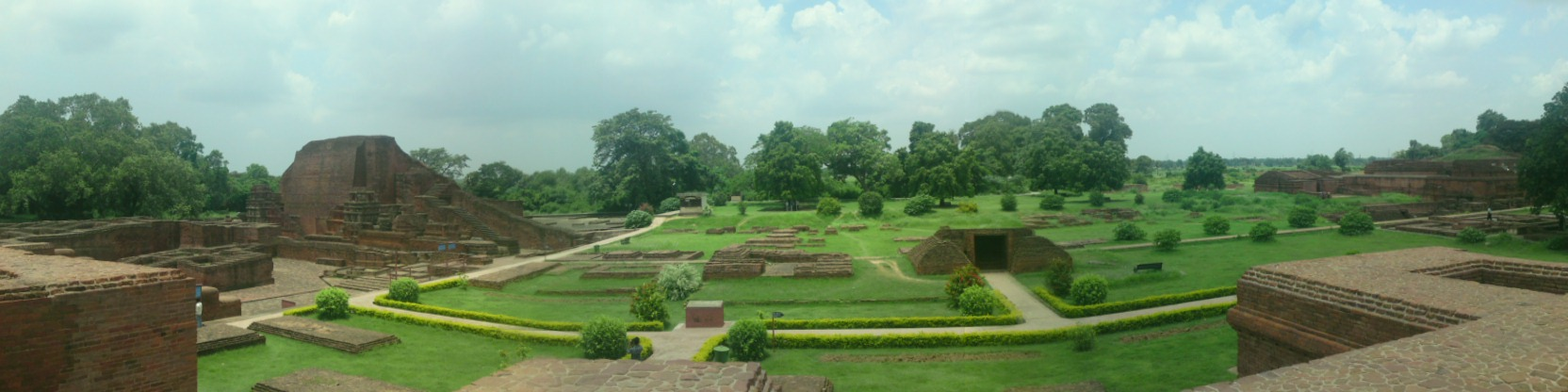 Front View Of Ancient mound, Bargaon , Nalanda, Bihar